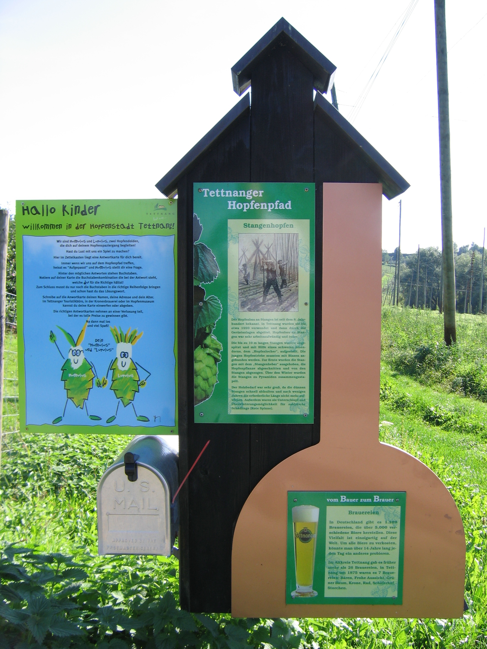 Germany - Baden-Württemberg - Bodenseekreis - Tettnang: "Tettnanger Hopfenpfad", Information "Stangenhopfen"